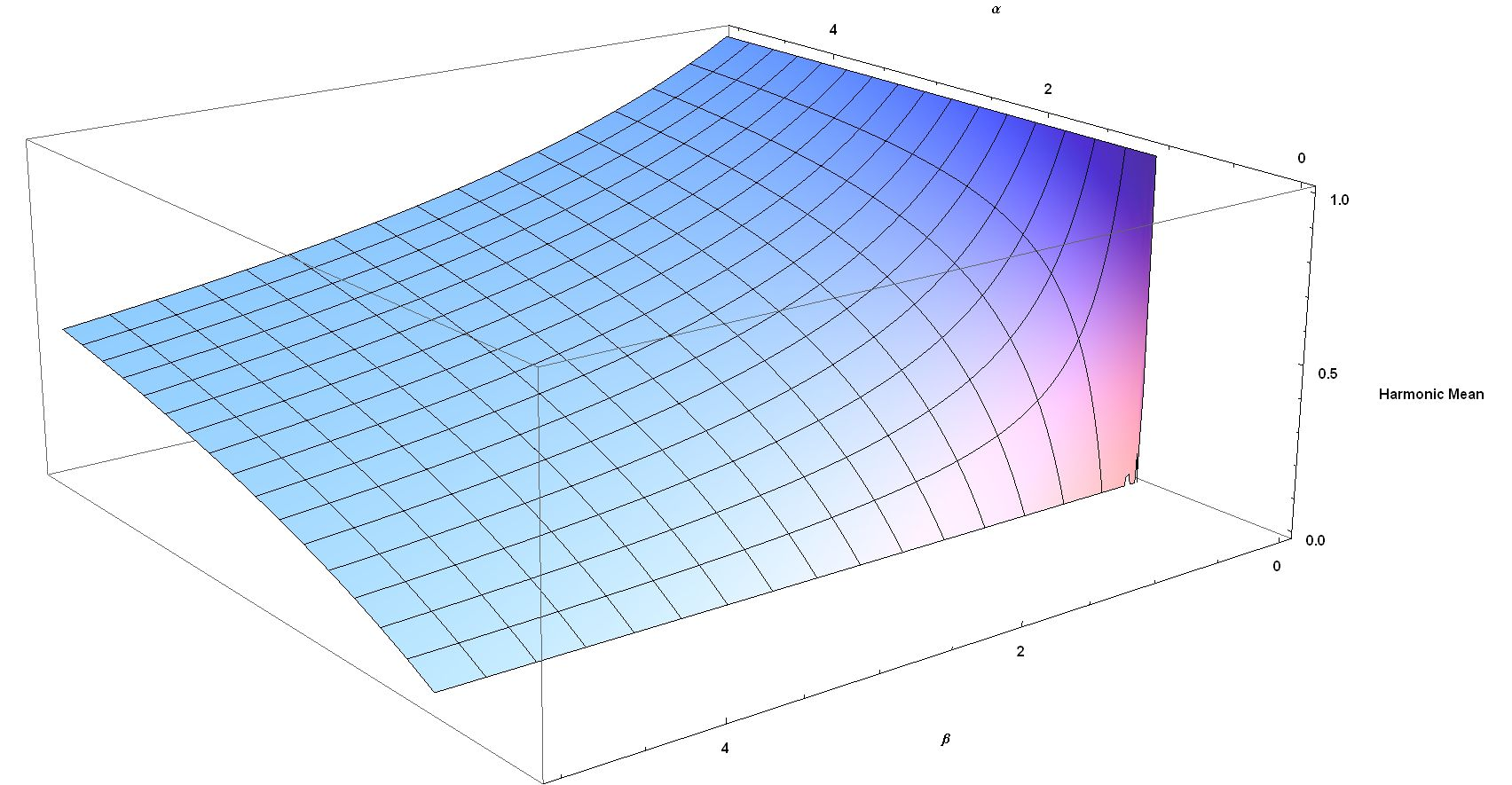 Harmonic mean for Beta distribution for alpha and beta ranging from 0 to 5 - J. Rodal